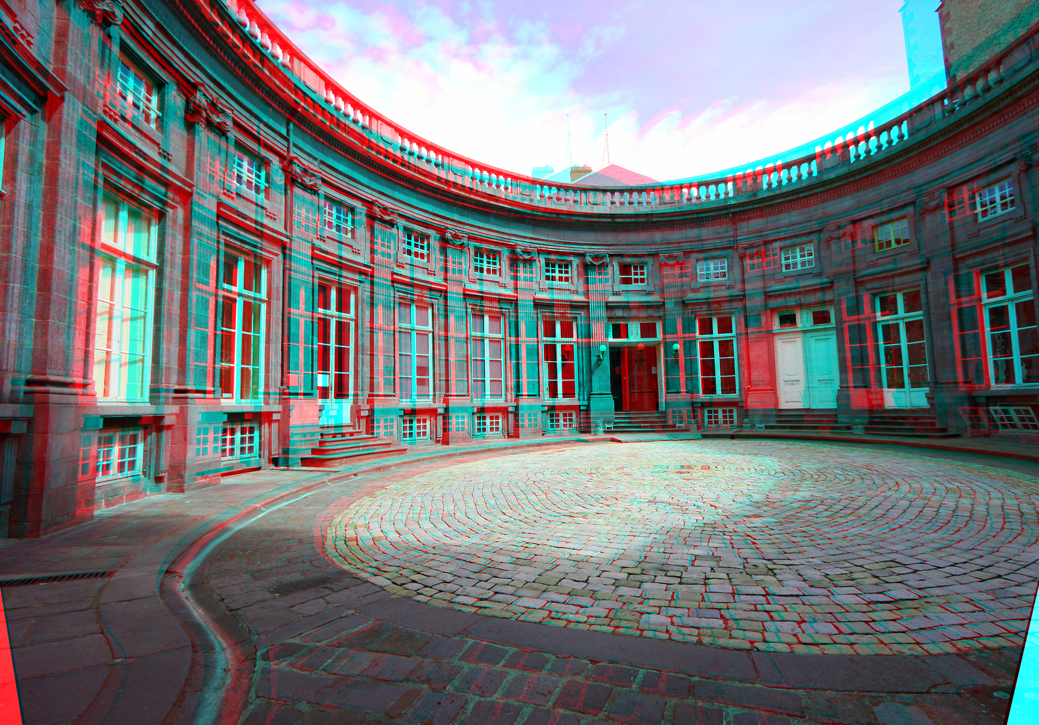 Hôtel de Chazerat, Clermont-Ferrand - Auvergne - France, stereoscopic anaglyphic view from the entry porch.